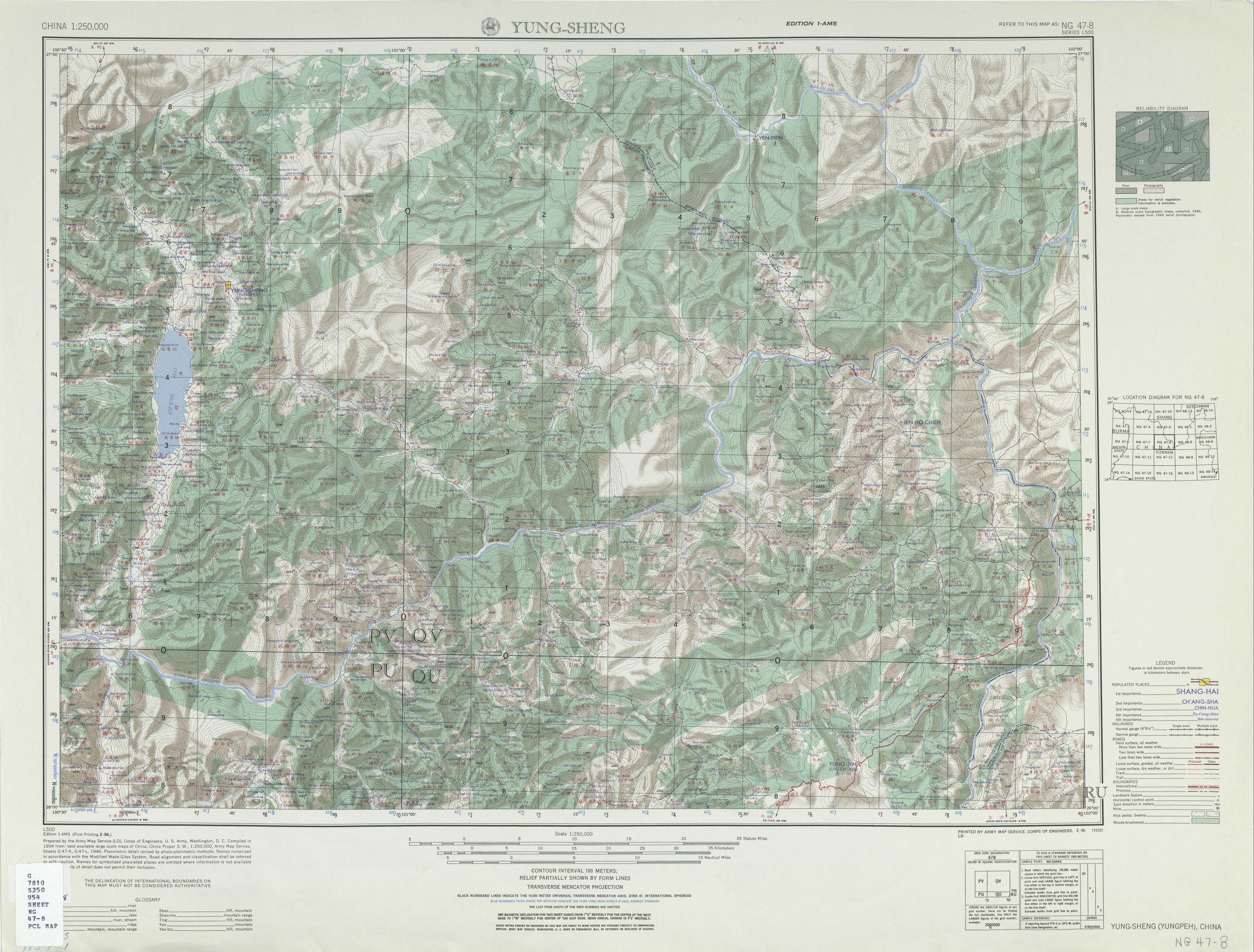 China AMS Topographic Maps